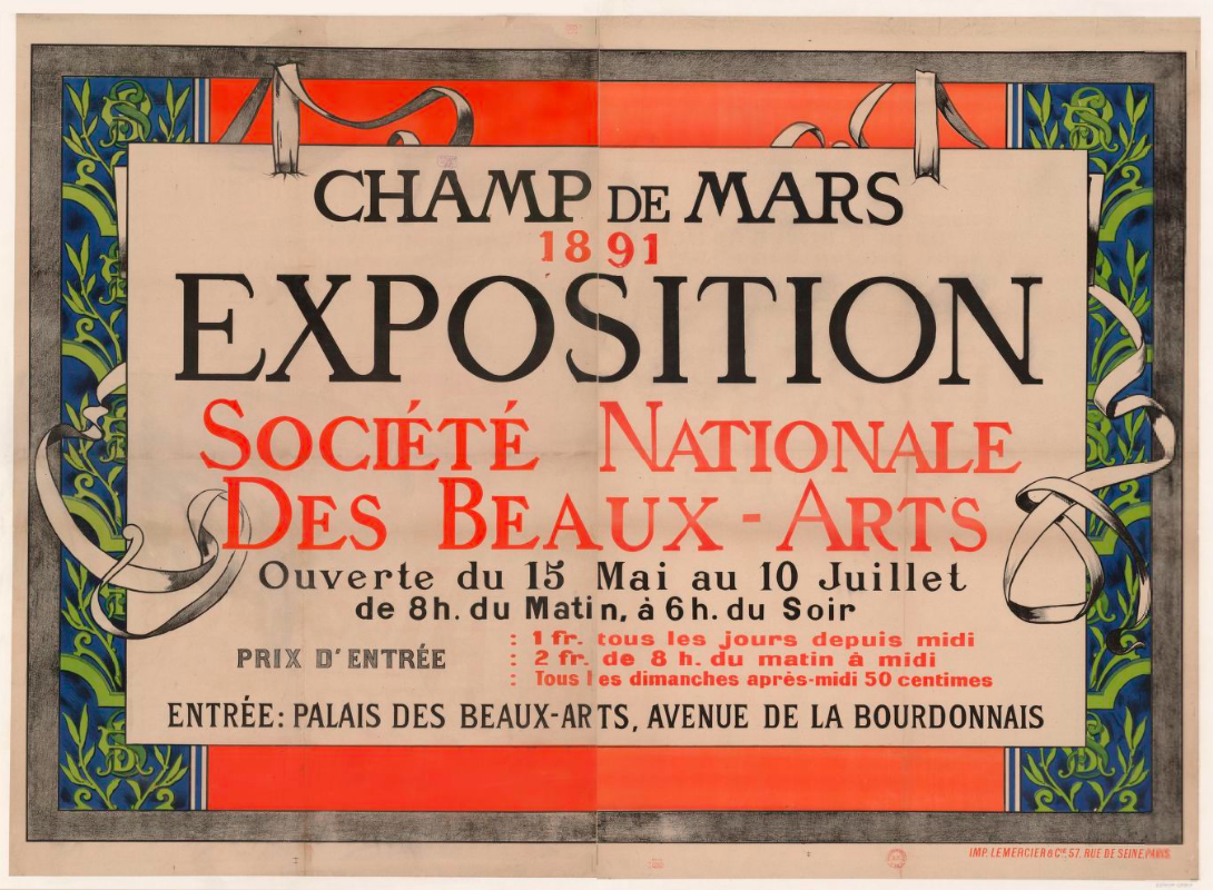 Champ de Mars Exposition Société nationale des beaux-arts..., poster printed in Paris by Lemercier.